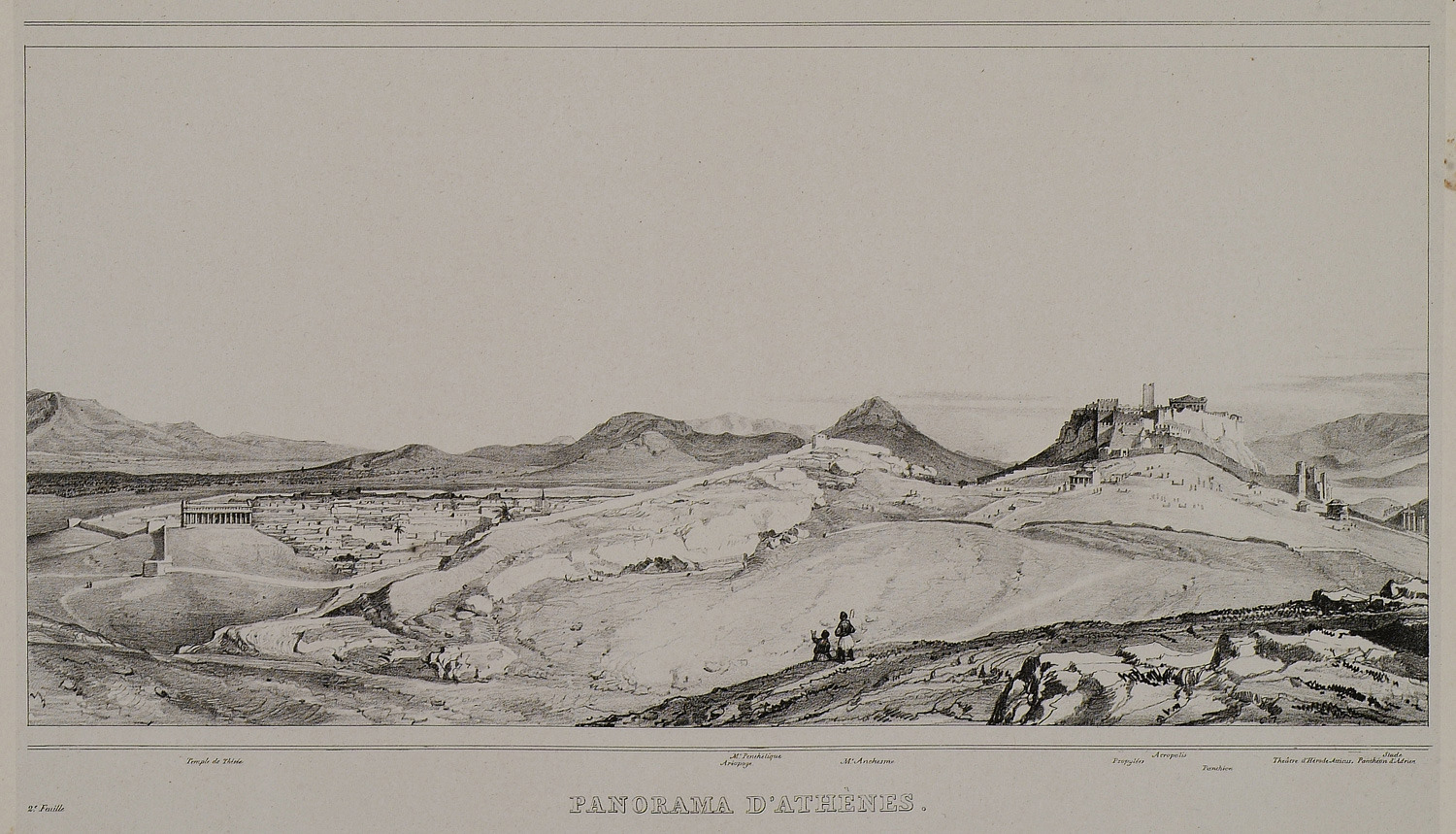 Otto Magnus von Stackelberg. La Grèce. Vues pittoresques et topographiques, Paris, Chez I. F. D'Ostervald, 1834.